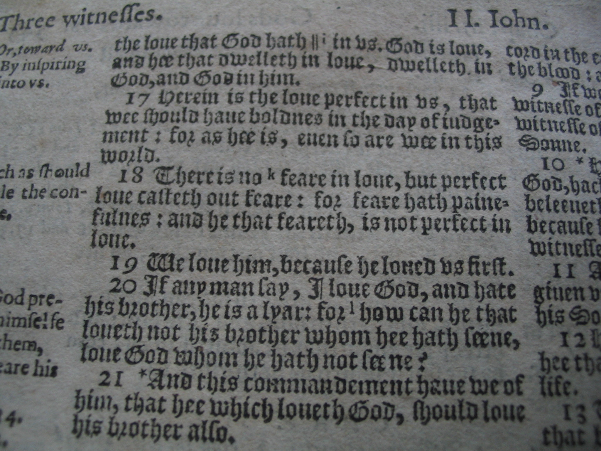 Example of Geneva Bible gothic or blackletter text.